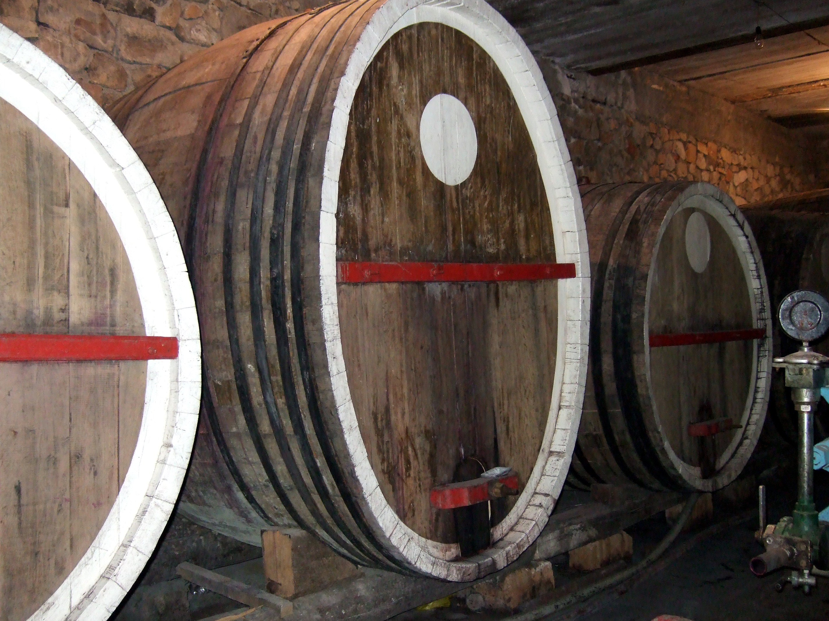 Wine barrels in a winery in Areni, Armenia